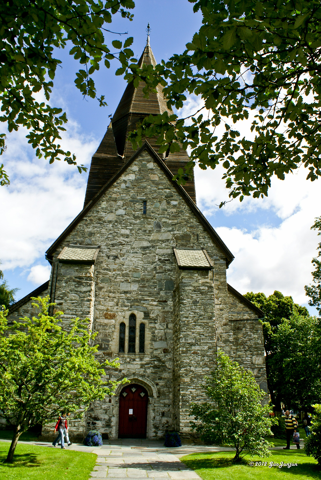 Front side from the church of Voss, in the center